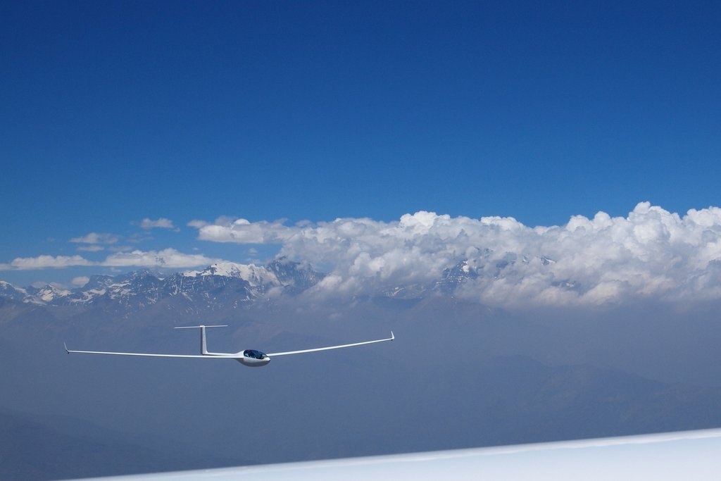 SZD-56 2 Diana 2 glider flying over the Andes. Picture taken from another Diana 2 gider. Training before Grand Prix in Santiago de Chile 2010 competition.